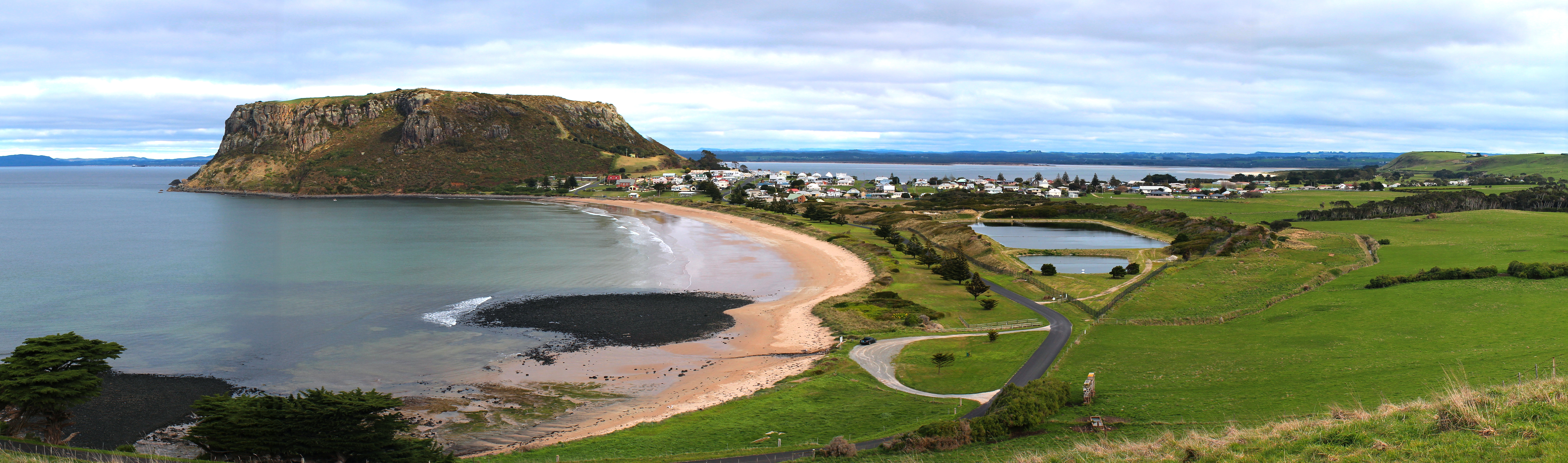 View of landmark the Nut and the town of Stanley in North West Tasmania, taken from Highfield House.